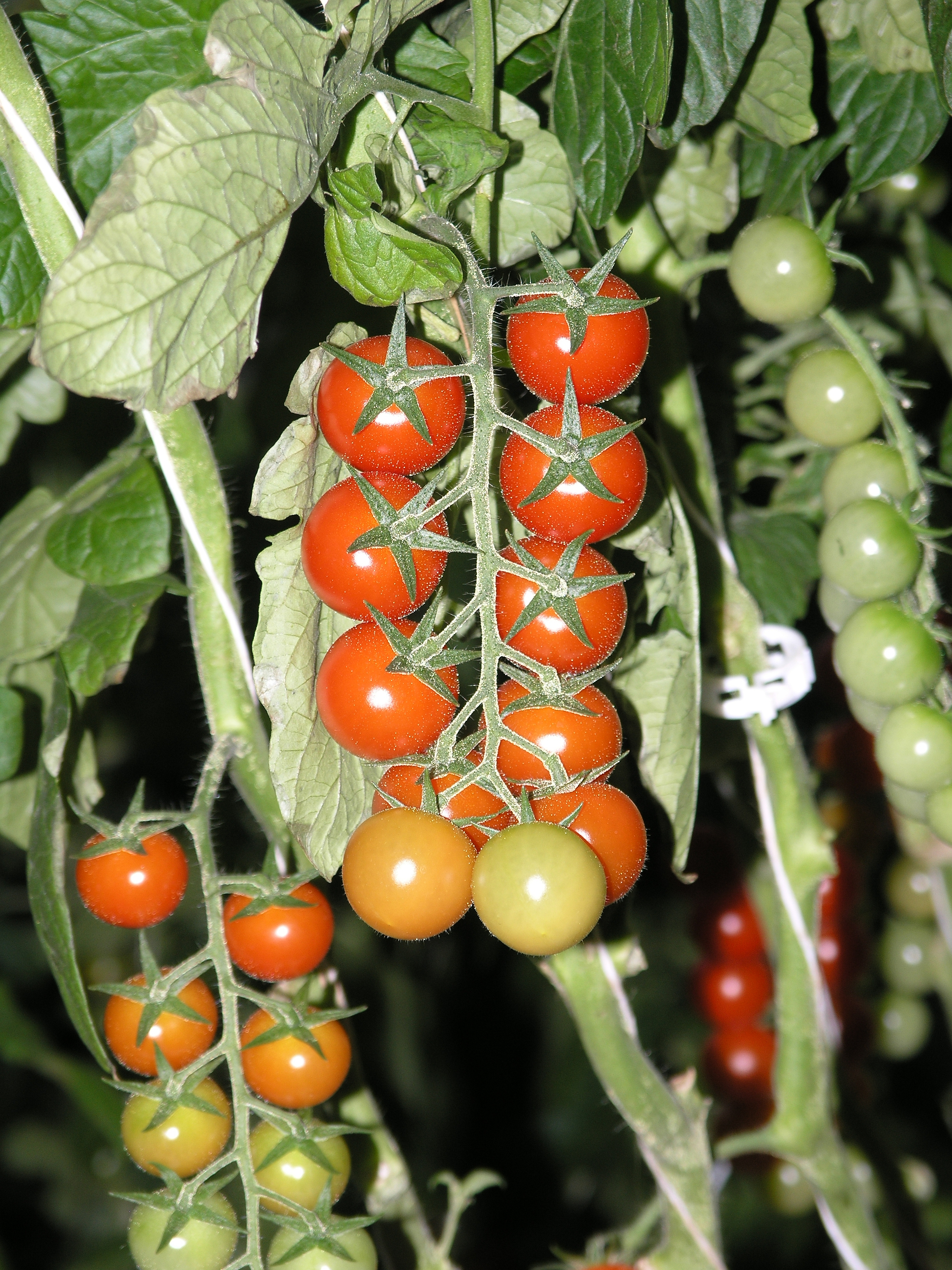 Cherrytomate Tross / Cherry tomatoe cluster